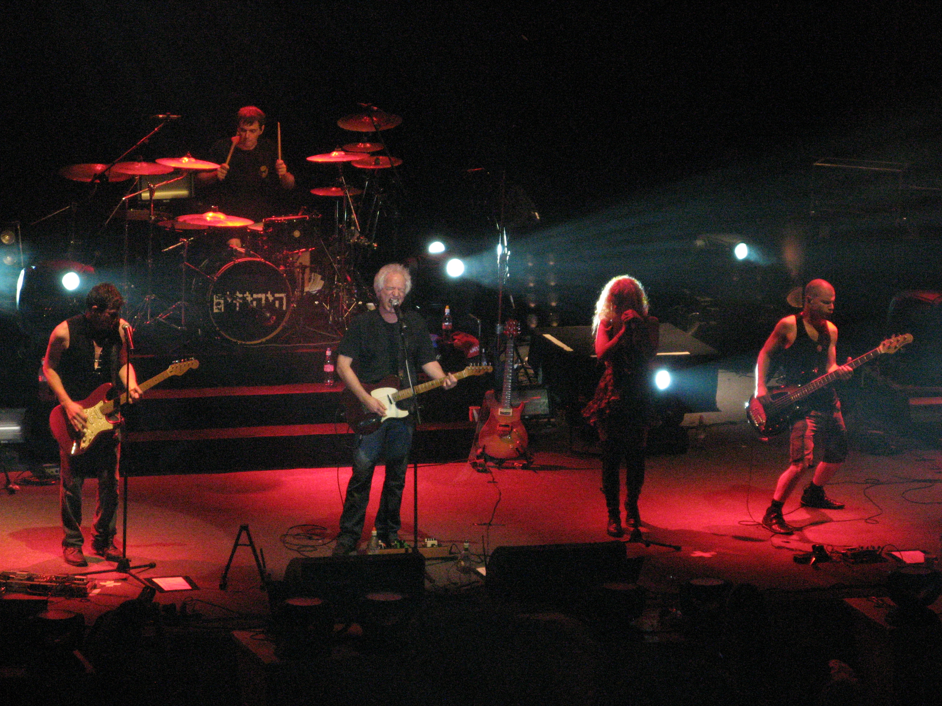 The Israeli rock band Hayehudim during a concert in Caesaria amphitheatre with the Israeli rock singer, lyricist and composer Shalom Hanoch